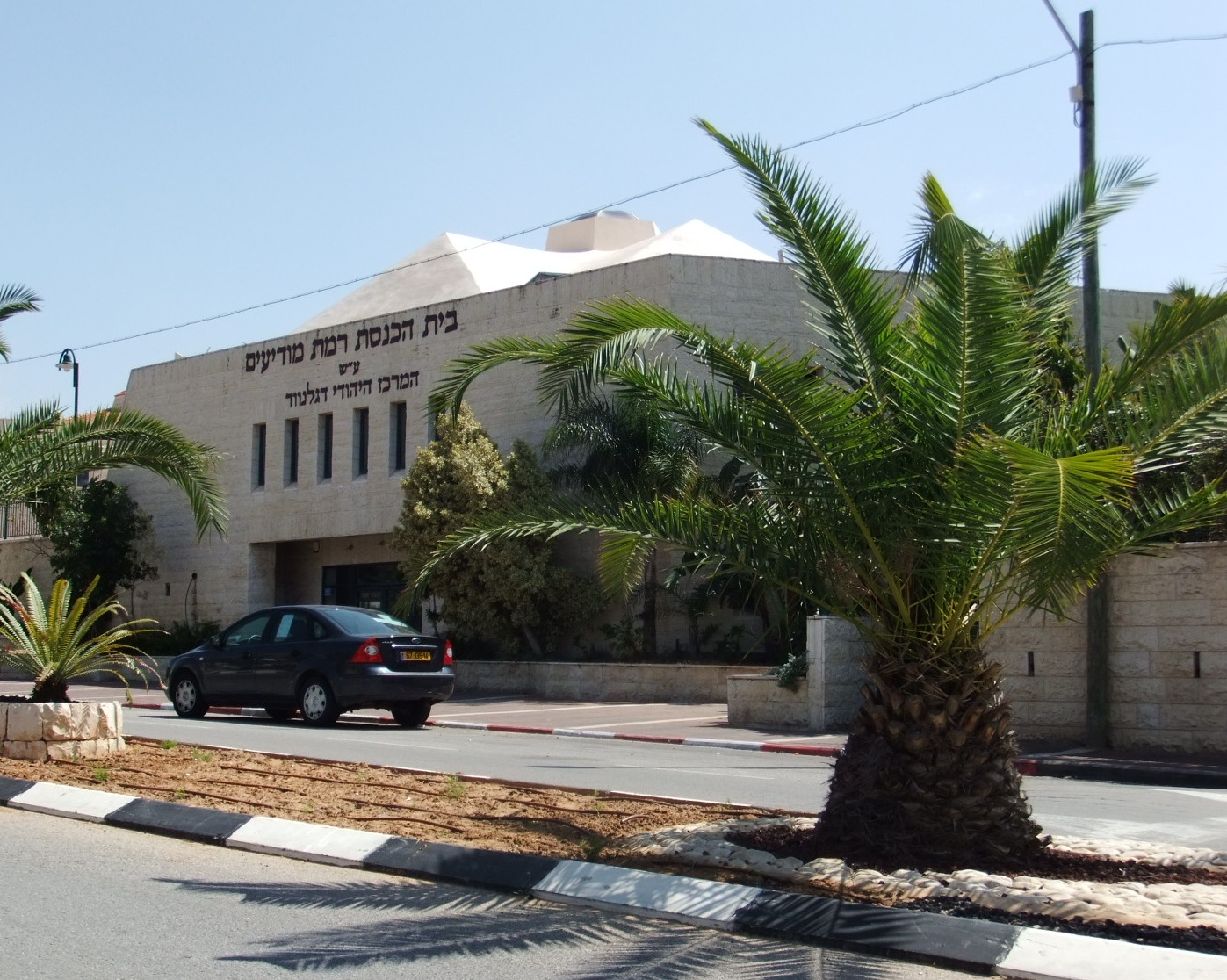 Glenwood shool in Hashmonaim